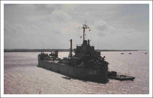 United States Navy landing ship tank USS Whitfield County (LST-1169) off the coast of South Vietnam cA. 1968